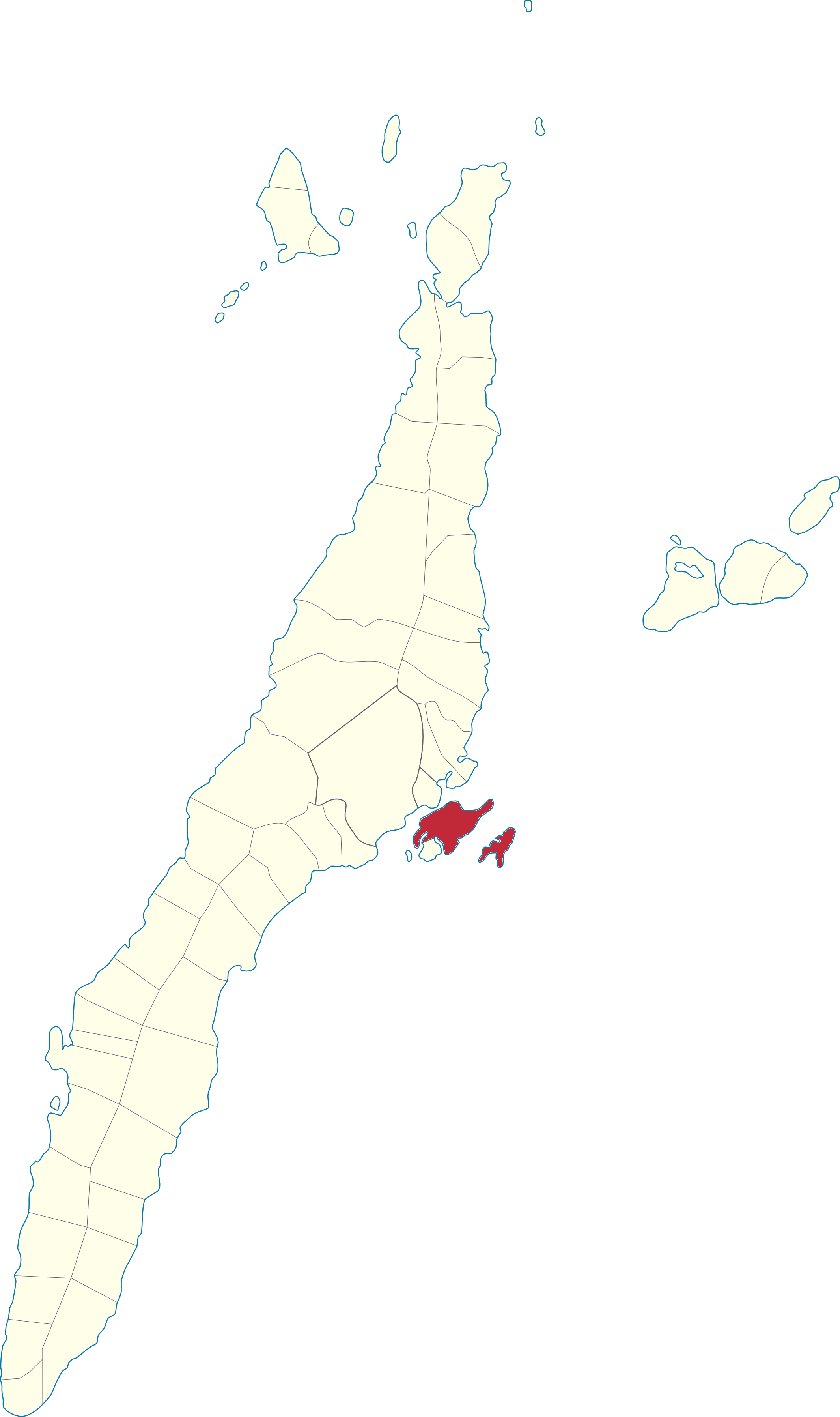 Location of Lone legislative district of Lapu-Lapu, Philippines